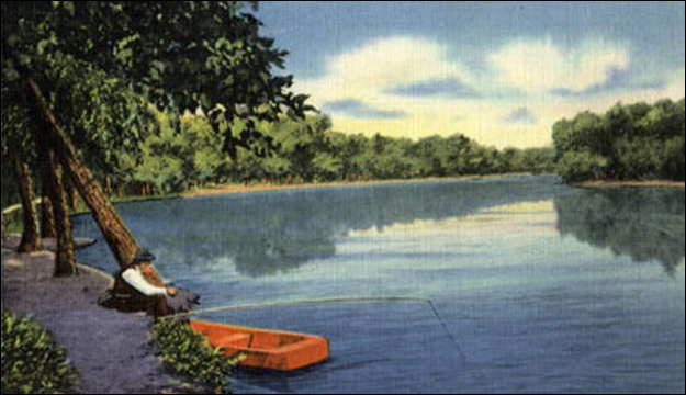 Long Branch Park at Onondaga Lake about 1900